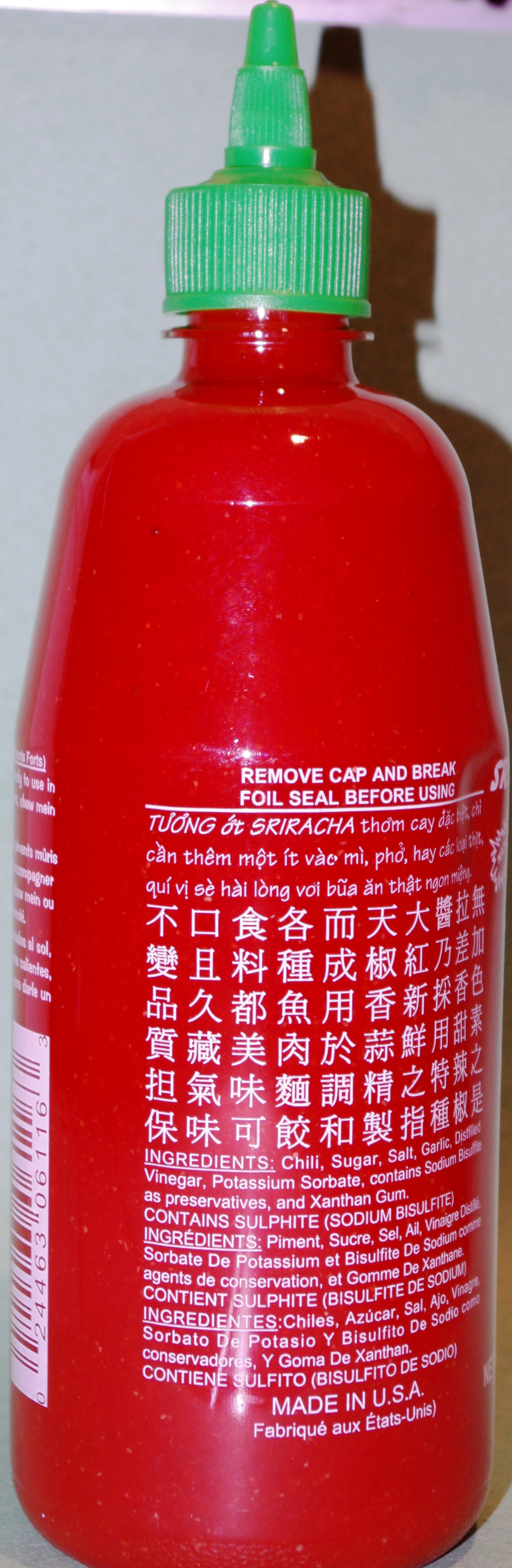 Sriracha is the name for a Thai hot sauce named after the coastal city of Si Racha, in the Chonburi Province of central Thailand, where it was first produced for dishes served at local seafood restaurants. It is a paste of chili peppers, vinegar, garlic, sugar and salt. This version is made by Huy Fong Foods, Inc., ("rooster sauce") in Rosemead, California, USA.